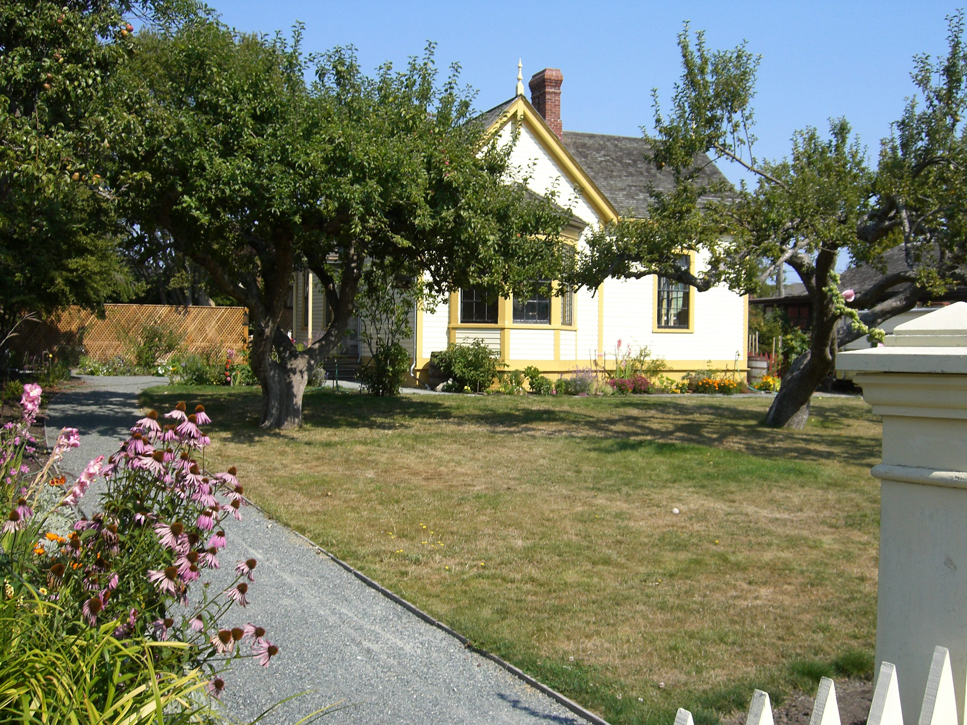 Ross Bay Villa at Ross Bay Cemetery, Victoria BC.